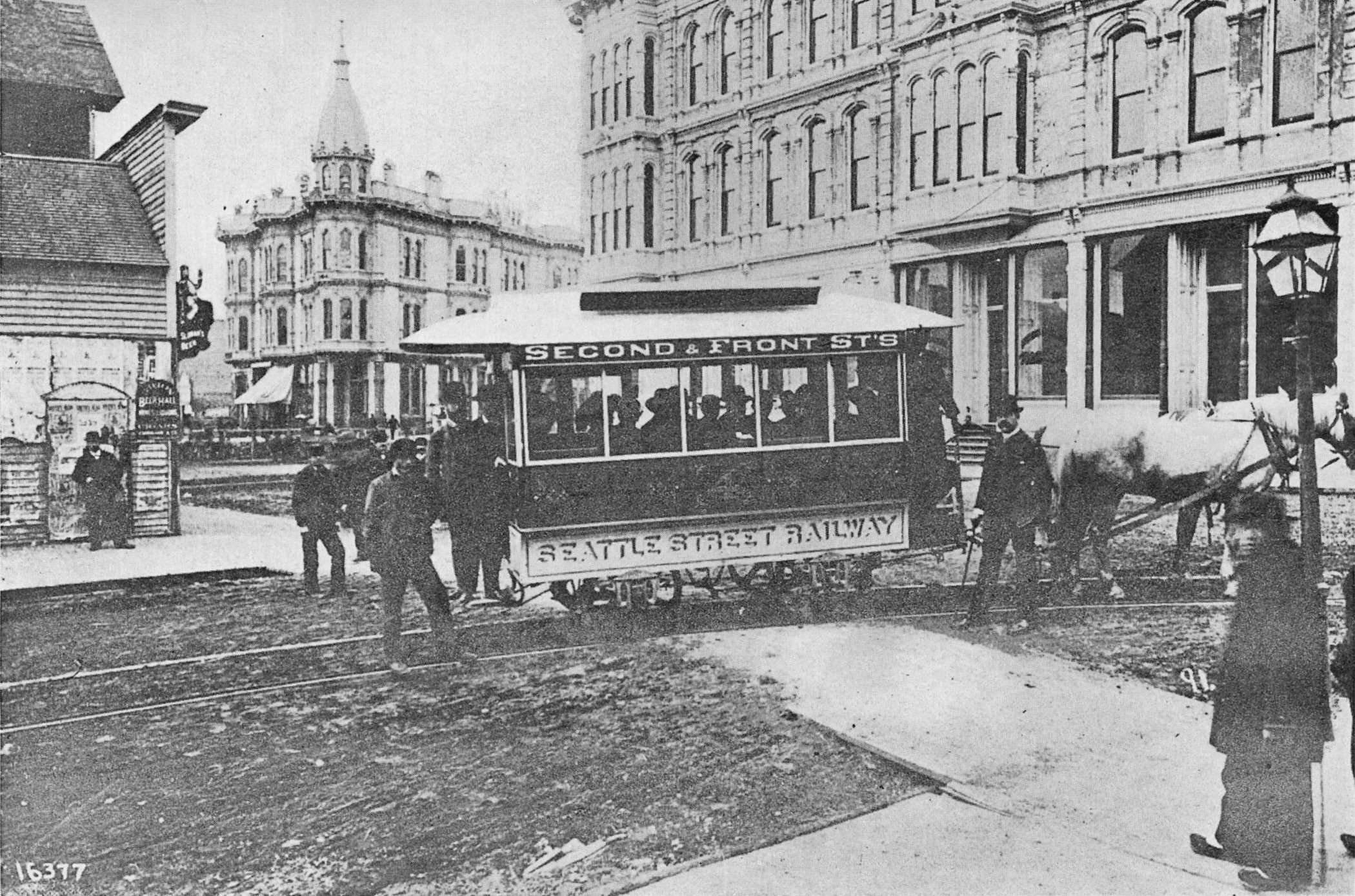 Description in the published source (1919): First street car at Occidental Avenue and Yesler Way, about 1884. The view is across Pioneer Square. The building in the background stood on the present site of the Mutual Life Building at First Avenue and Yesler Way. The building on the right is a hotel. It was destroyed in the Great Fire and the Seattle Hotel Building now occupies this site. Mayor Leary and a party of invited guests are in the car. The hotel in question was the Occidental Hotel. The Seattle Hotel on the same site was demolished in the 1960s. The Mutual Life Bilding, alluded to, is still at the corner of First and Yesler. The tram is horse-drawn. Visible signs on the streetcar say "Second & Front St's", "Seattle Street Railway". In 1884, First Avenue would have been called Front Street and Occidental Avenue would have been called Second Street. The names were changed after the Great Seattle Fire (1889). Mayor Leary was John Leary, a business leader. In the background at center is the Yesler-Leary Building.